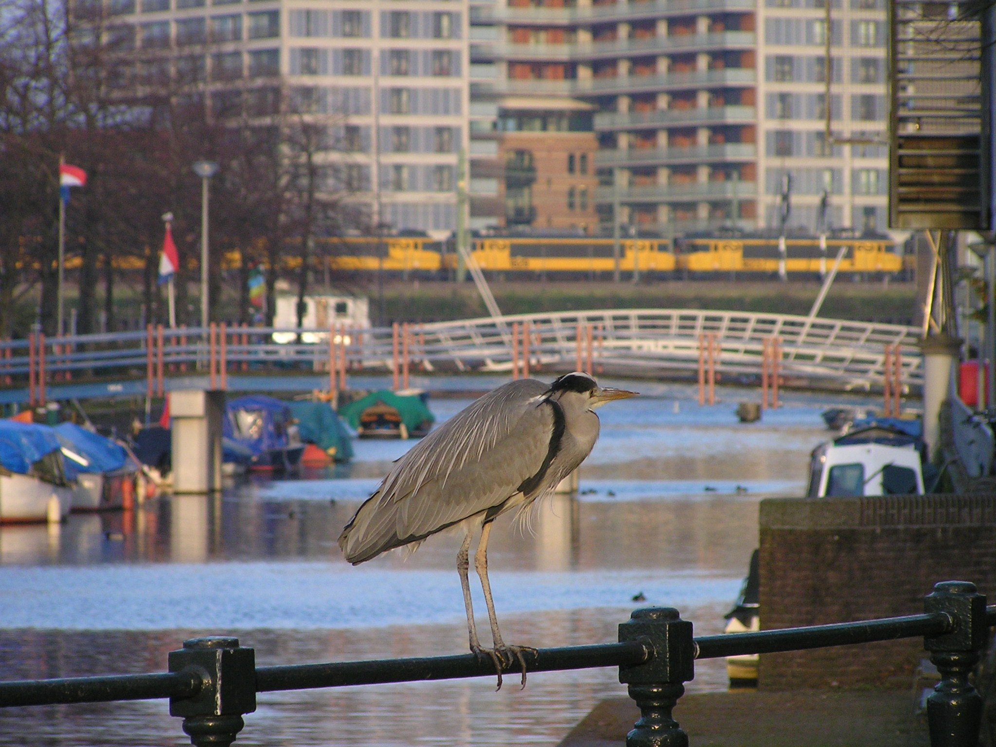 Grey heron (Ardea cinerea) on an Amsterdam bridge; Witte Katbrug (brug 1914, blue and red) and in the background Zeebrabrug (brug 389, black and white